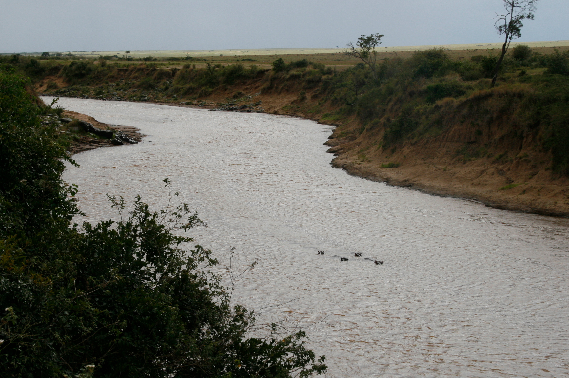 Hippo family in Mara river